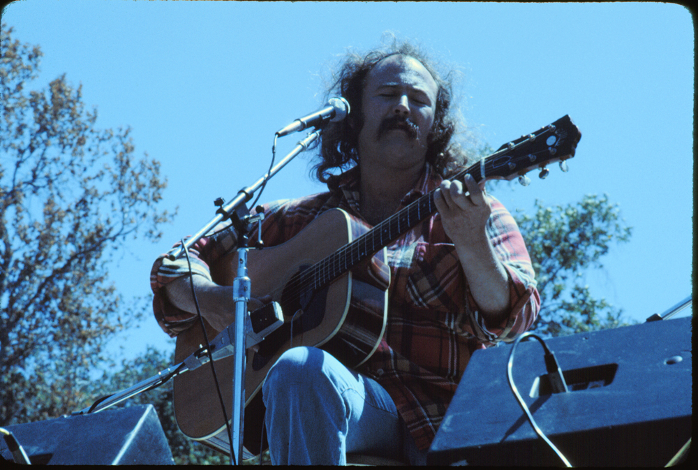 David Crosby 1976 Crosby-Nash show at the Frost Amphitheater, Stanford California